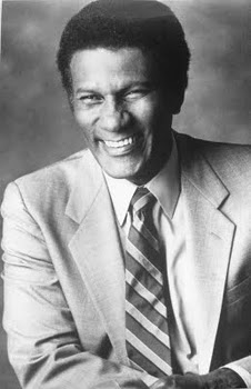 Marc Hannibal, Singer, Actor, Athlete